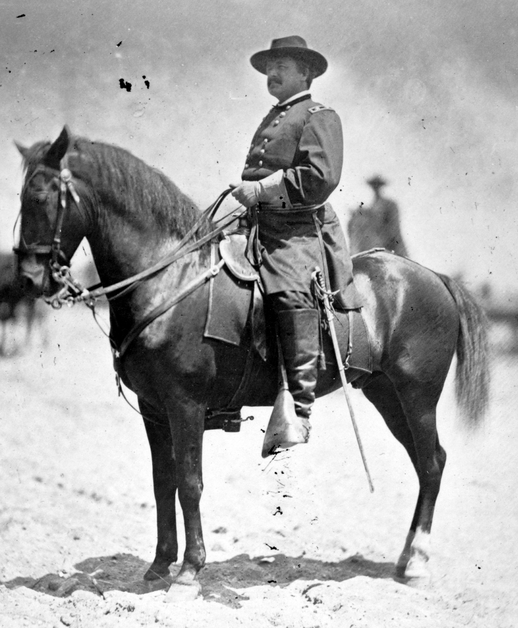 Major General Alexander McDowell McCook, full-length portrait seated on horseback, facing left